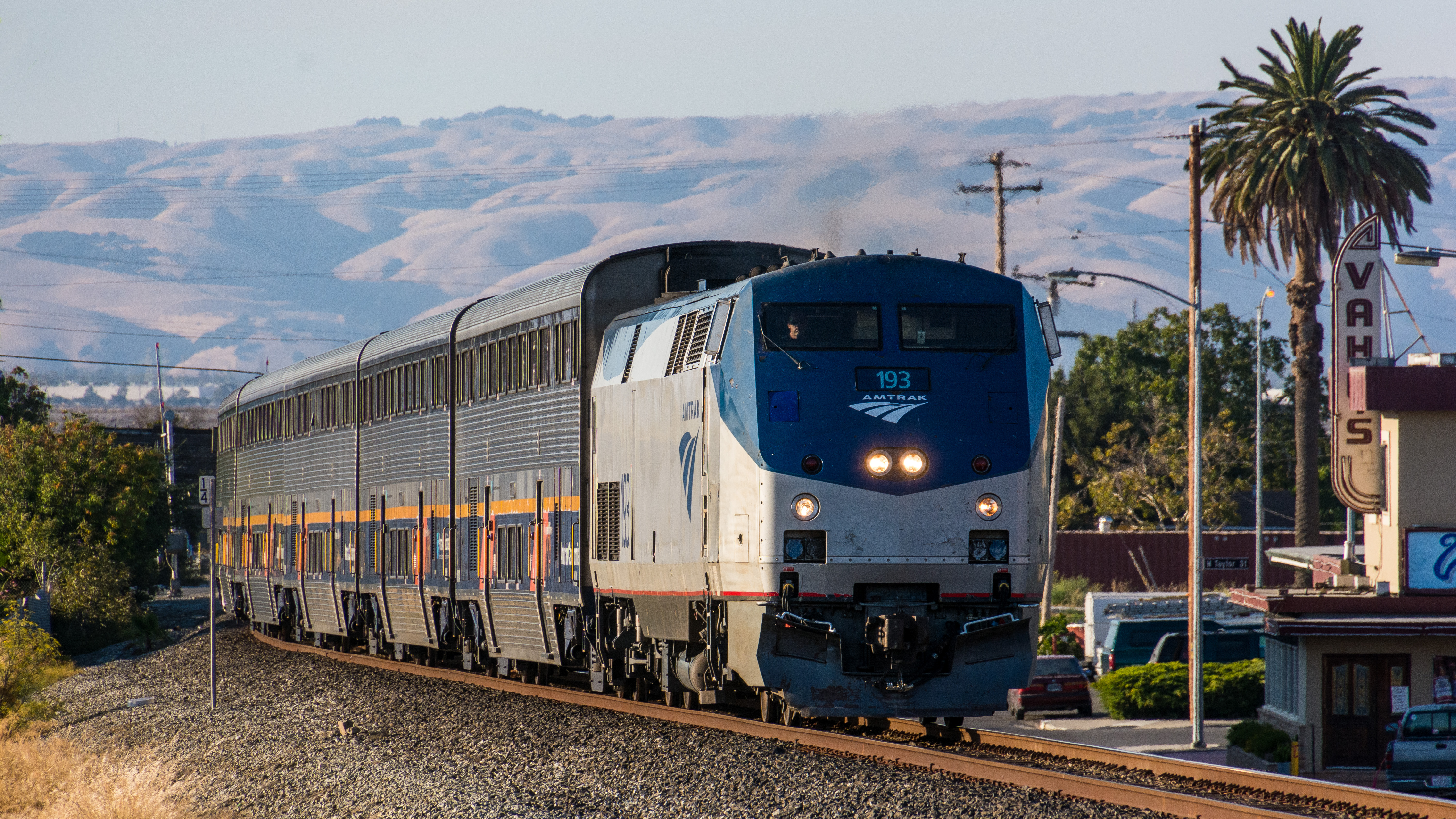 Southbound Capitol Corridor train #743 runs through Alviso, California in July 2016